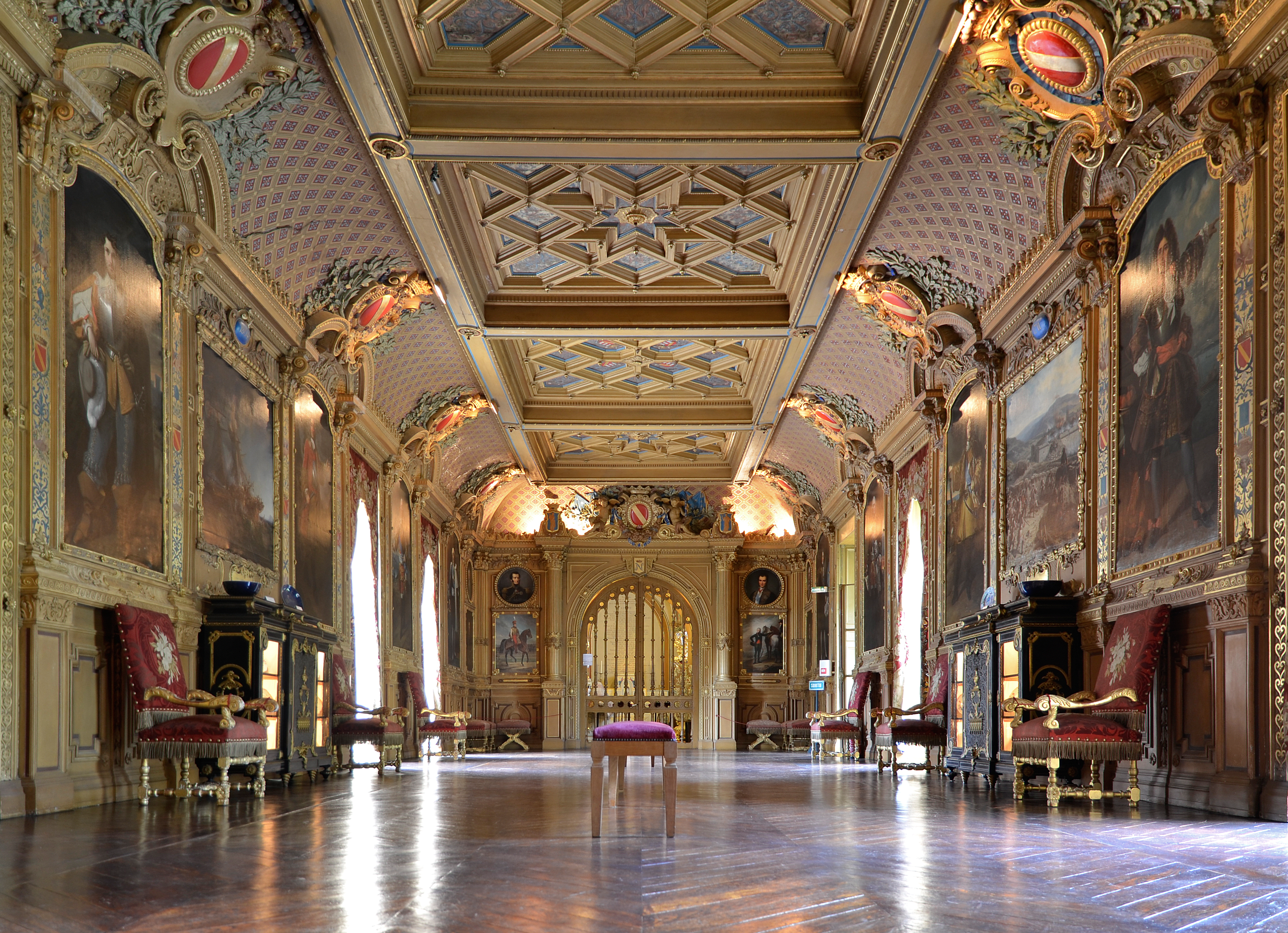 Great gallery of Château de Maintenon - Eure-et-Loir, France